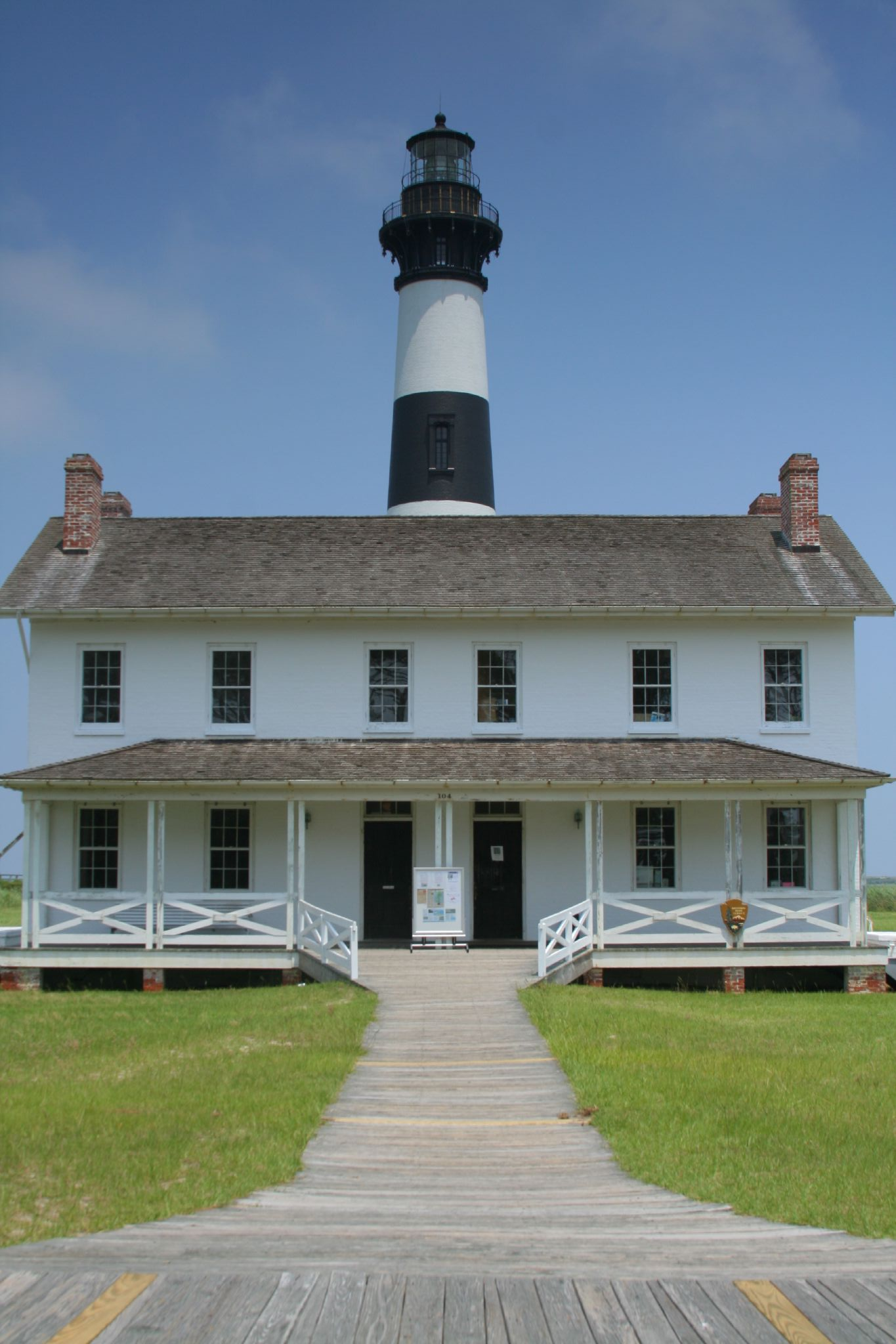 Bodie Island Light behind the keeper's quarters, North Carolina, USA